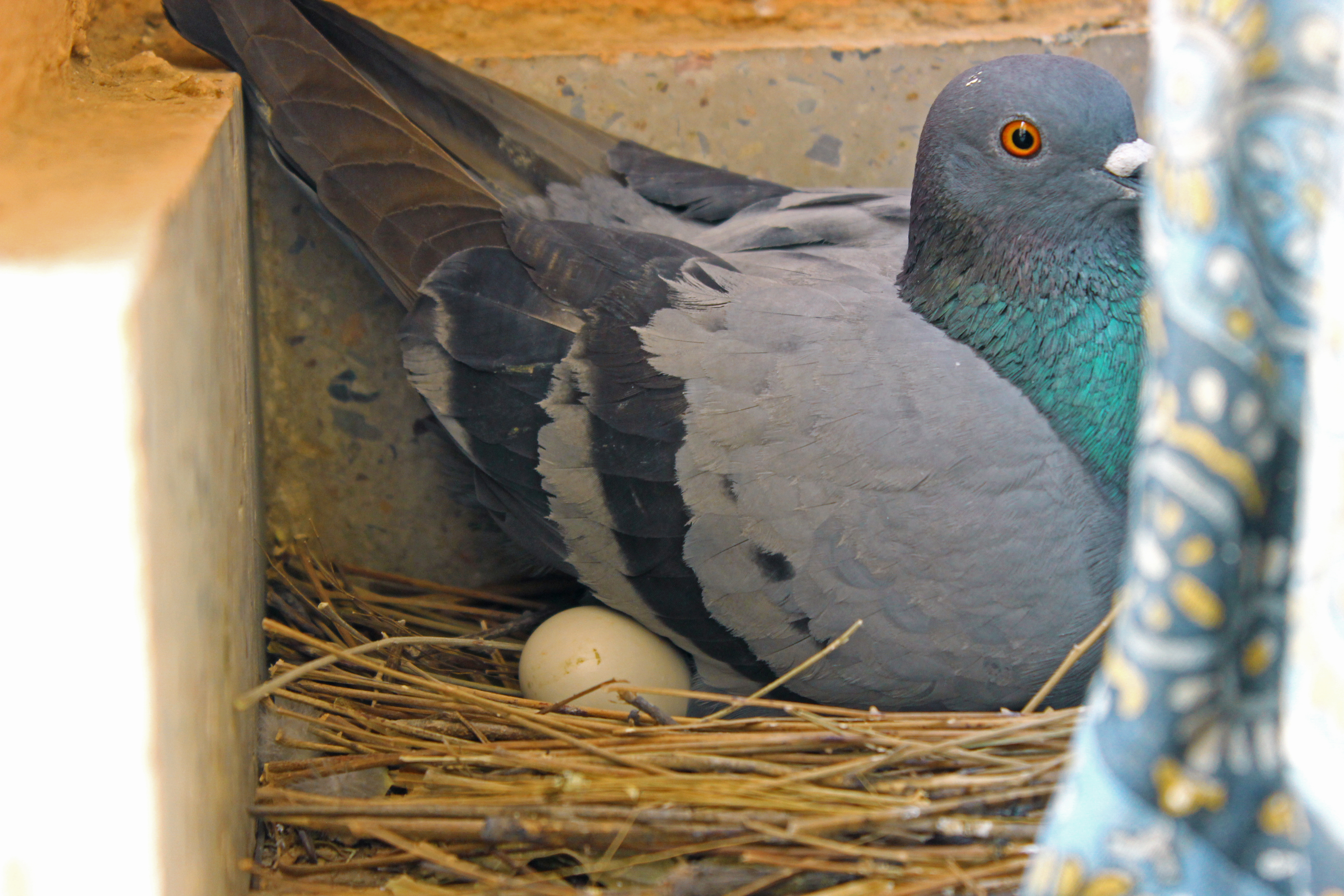 A pigeon incubating its eggs